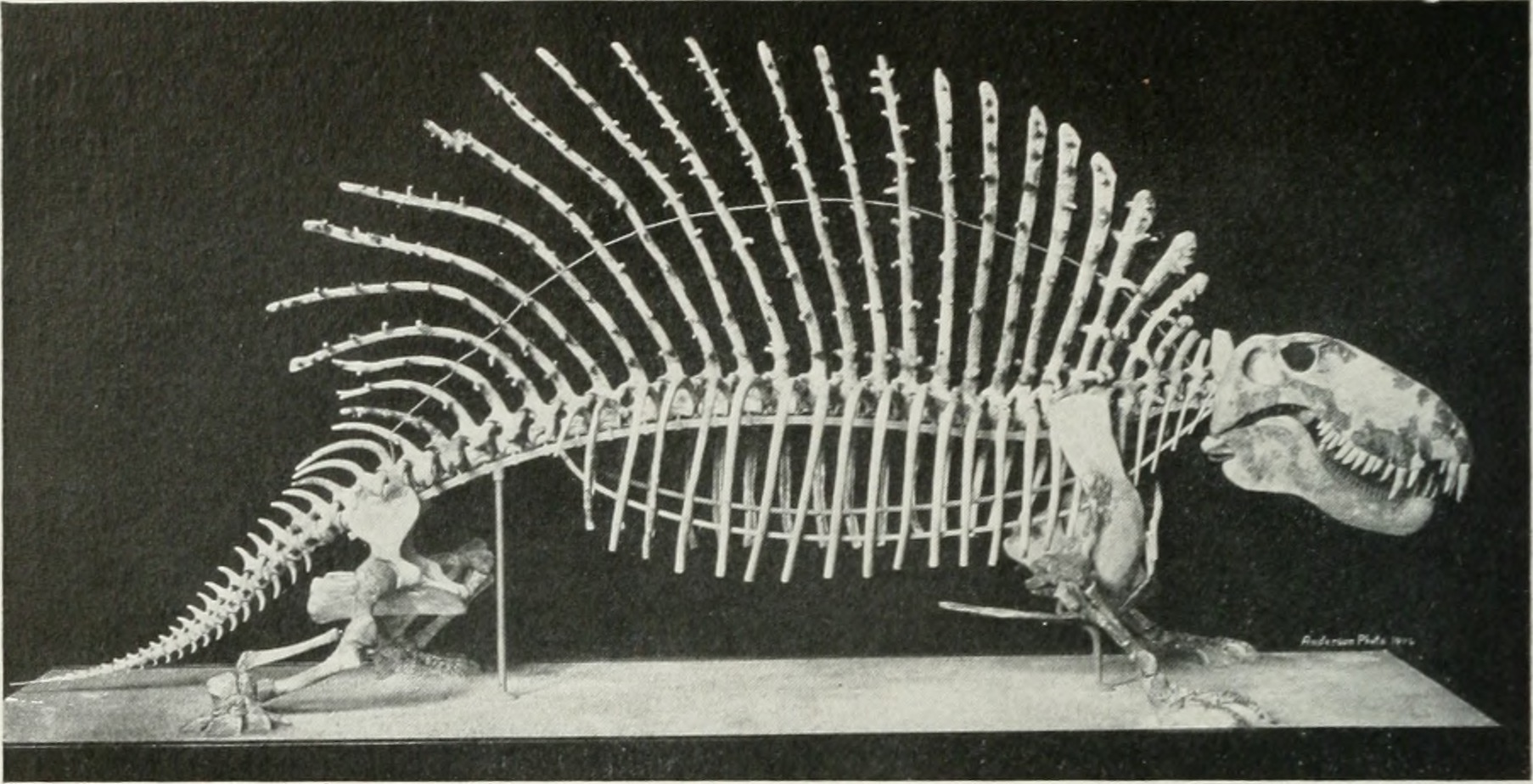 Title: Natural history Year: 1919 (1910s) Authors: American Museum of Natural History Subjects: Natural history Publisher: New York : American Museum of Natural History Text Appearing Before Image: e the waters of the Permianrivers and lakes, need not be taken very seriously. Although clumsy and awkward looking in comparison with themore highly developed carnivorous reptiles and mammals of laterperiods, the Xaosaurus was the most active and powerful predaceousanimal of its time. A suggestion of its fighting habits is conveyed in theinjury to one of the spines in this skeleton. This was broken and dis-placed during life, probably in some affray, and afterwards united by agrowth of false bone. Several other specimens in the collection bearmarks of injuries received during life. With this skeleton the Department of Fossil Vertebrates enters uponthe illustration of the fauna of the Age of Amphibians, which precededthe Age of Reptiles as that preceded the Age of Mammals in the historyof the earth. In the Hall of Fossil Mammals may be seen the rise anddevelopment of the various races of quadrupeds which to-day inhabitthe earth; while the Dinosaurs, in the Dinosaur Hall, and the Marine Text Appearing After Image: THE SKELETON OF NAOSAURUS Cope CollectionA great, flesh-eating lizard, eight feet long, (nun the Permian beds of Texas.Collected by Charles H. Sternberg. Mounted at the American Museum in 1906 by A. Hermann.